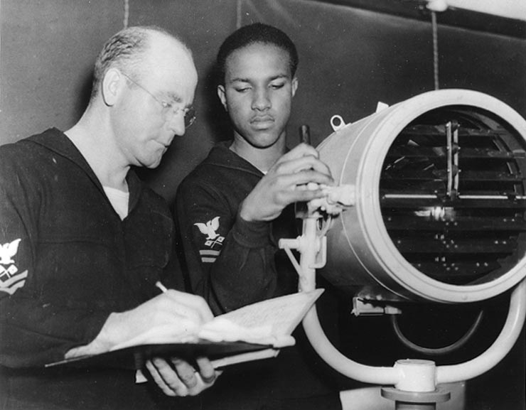 USS Mason (DE-529). Signalman Second Class Julius Holmes receives Signal lamp instruction from SM1c Ernest V. Alderman (left), during training for Mason's crew at the Norfolk Naval Training Station, Virginia, 3 January 1944. Original caption: “Photo # 80-G-214545 USS Mason crewman receives signal lamp trainig”